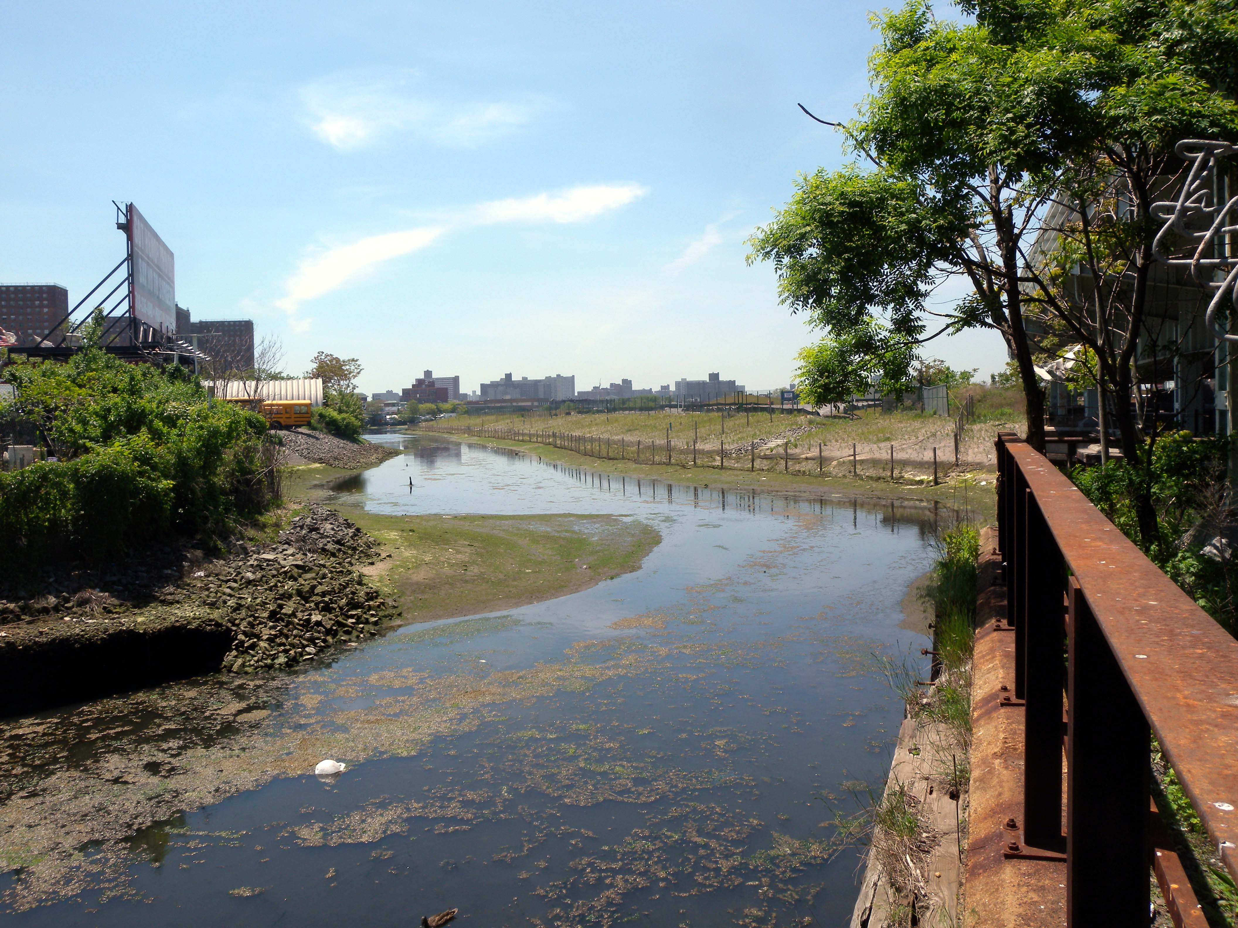 Looking west along Coney Island Creek from Macdonald Avenue (Shell Road) bridge on a sunny midday. See also File:Shore Pkwy CI Creek jeh.jpg.